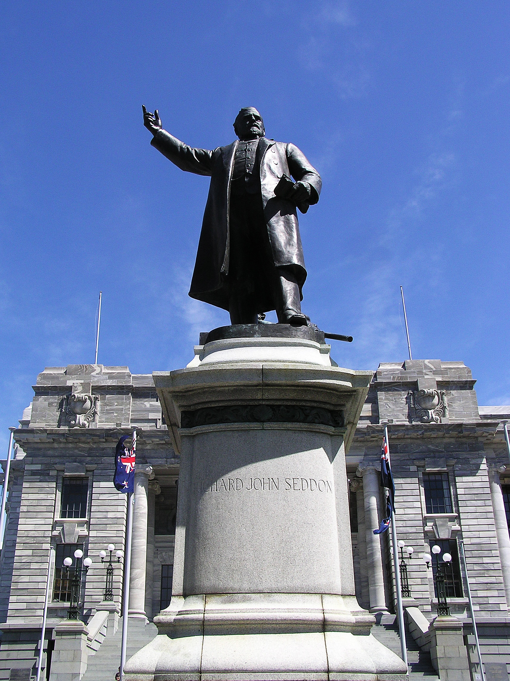 Statue of Richard John Seddon 1845-1906 in front of Parliament House in New Zealand. New Zealand Historic Places Trust Register number: 230.